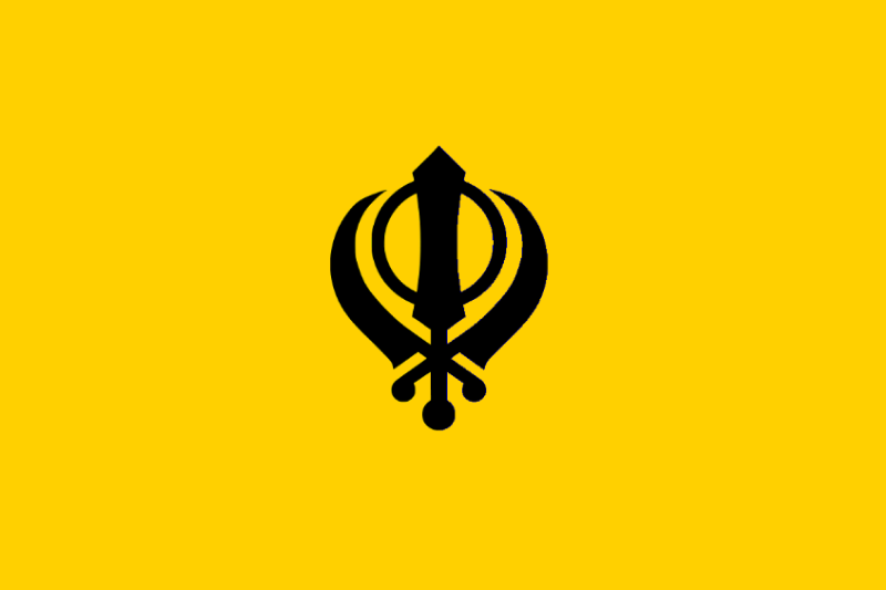 Flag of Sikhism (Safran colour), according photos at